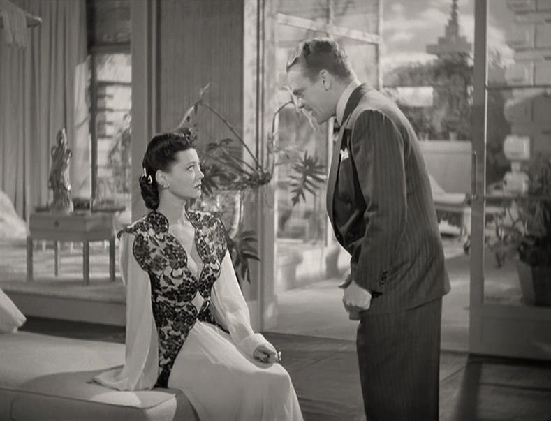 Sylvia Sidney & James Cagney in Blood on the Sun - cropped screenshot